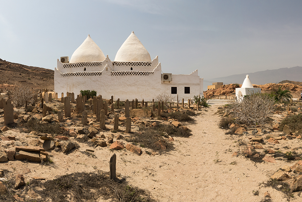 Mausoleum of Bin Ali in Mirbat. Dhofar, Oman.